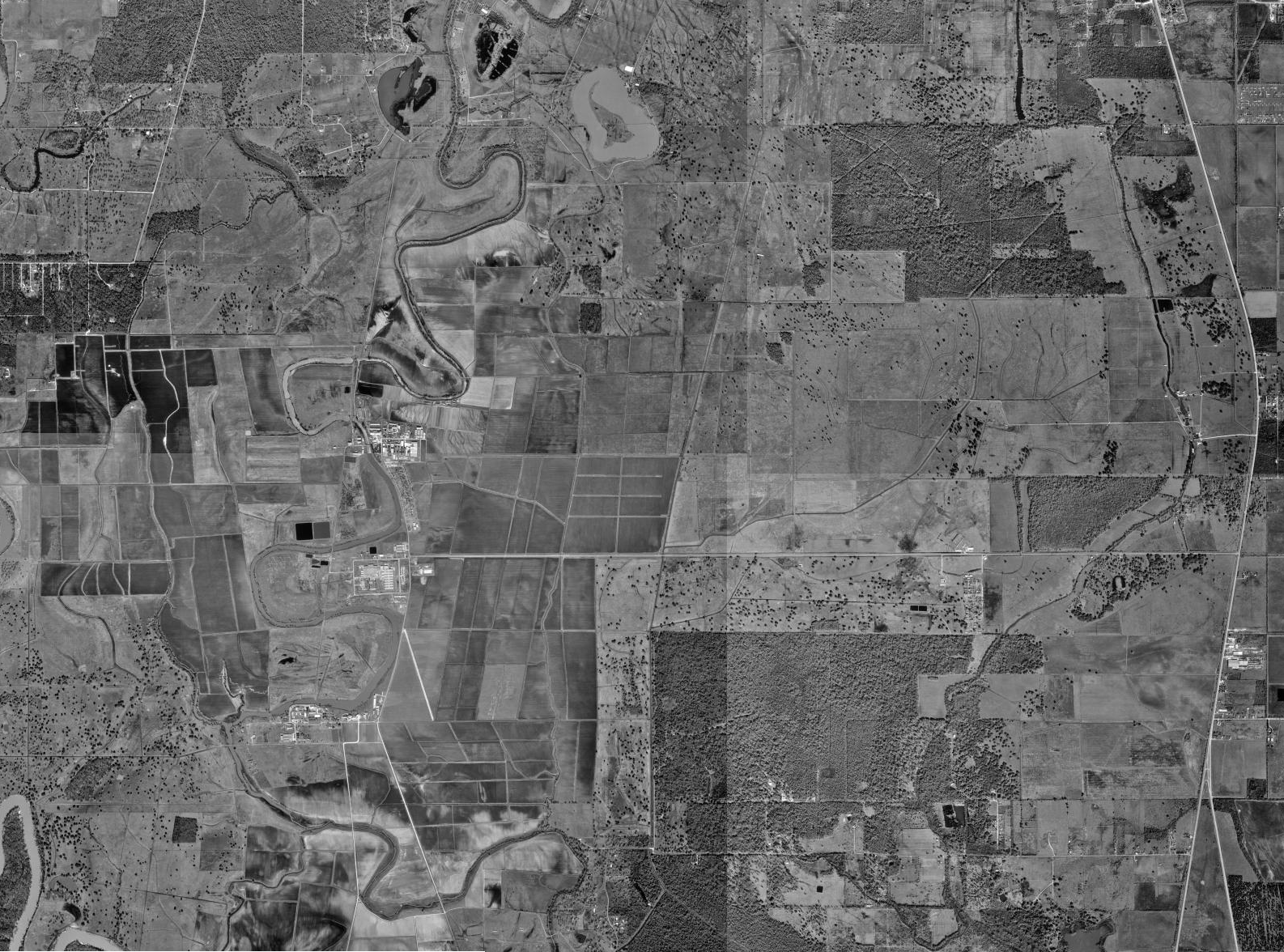 USGS orthophoto of the Ramsey Unit in Texas: Ramsey (Ramsey I), Stringfellow (Ramsey II), and Terrell (Ramsey III).